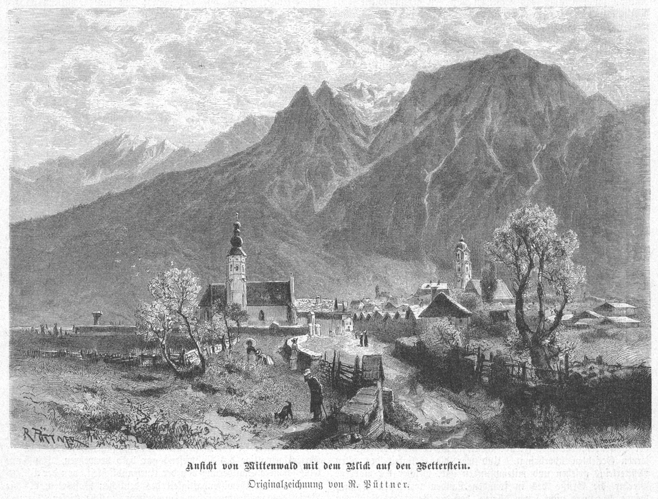 caption: "Ansicht von Mittenwald mit dem Blick auf den Wetterstein.Originalzeichnung von R. Püttner."